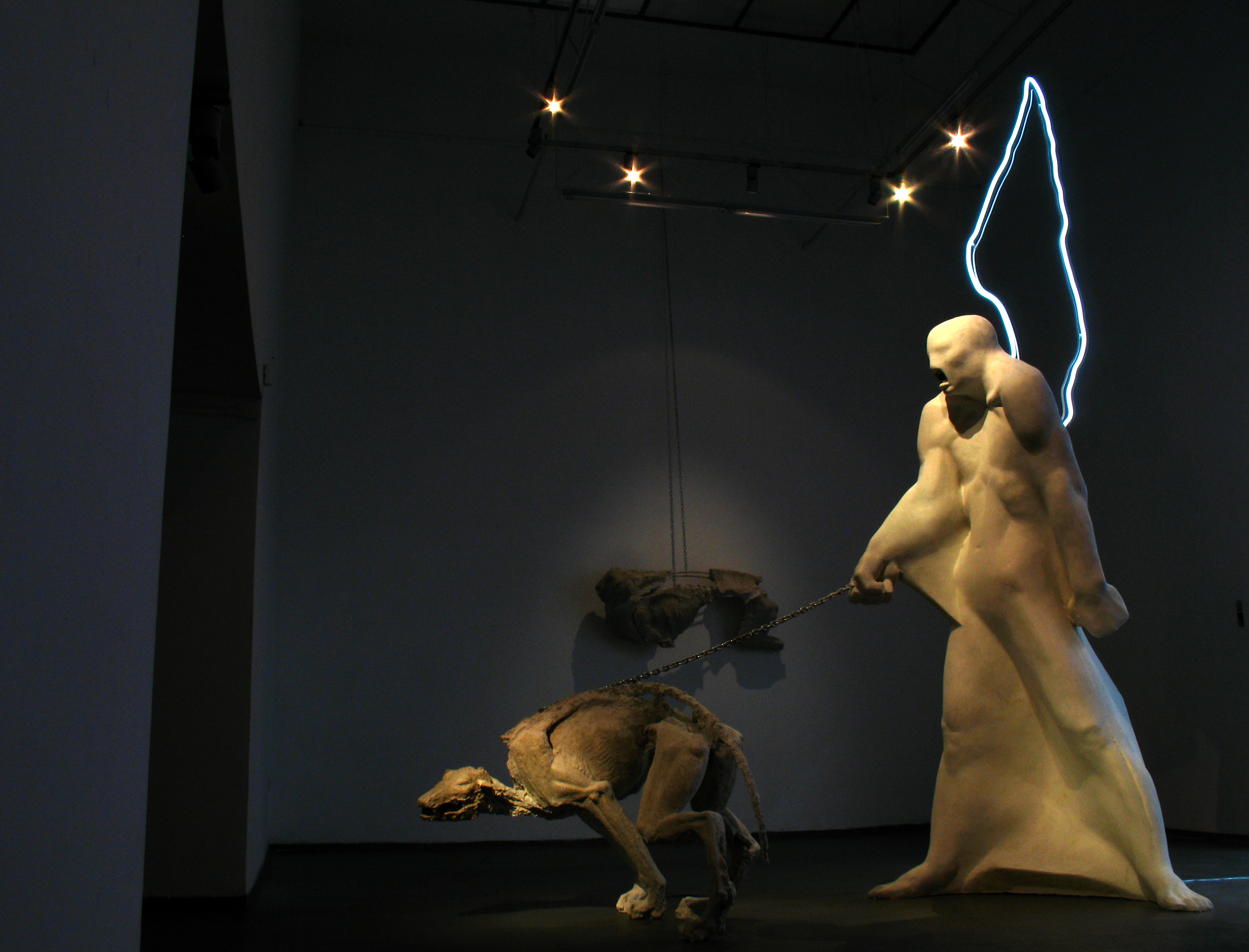 "Пазачът на живите" , гипс, неон, желязо, 2014, към самостоятелната изложба "О, щастливи дни"